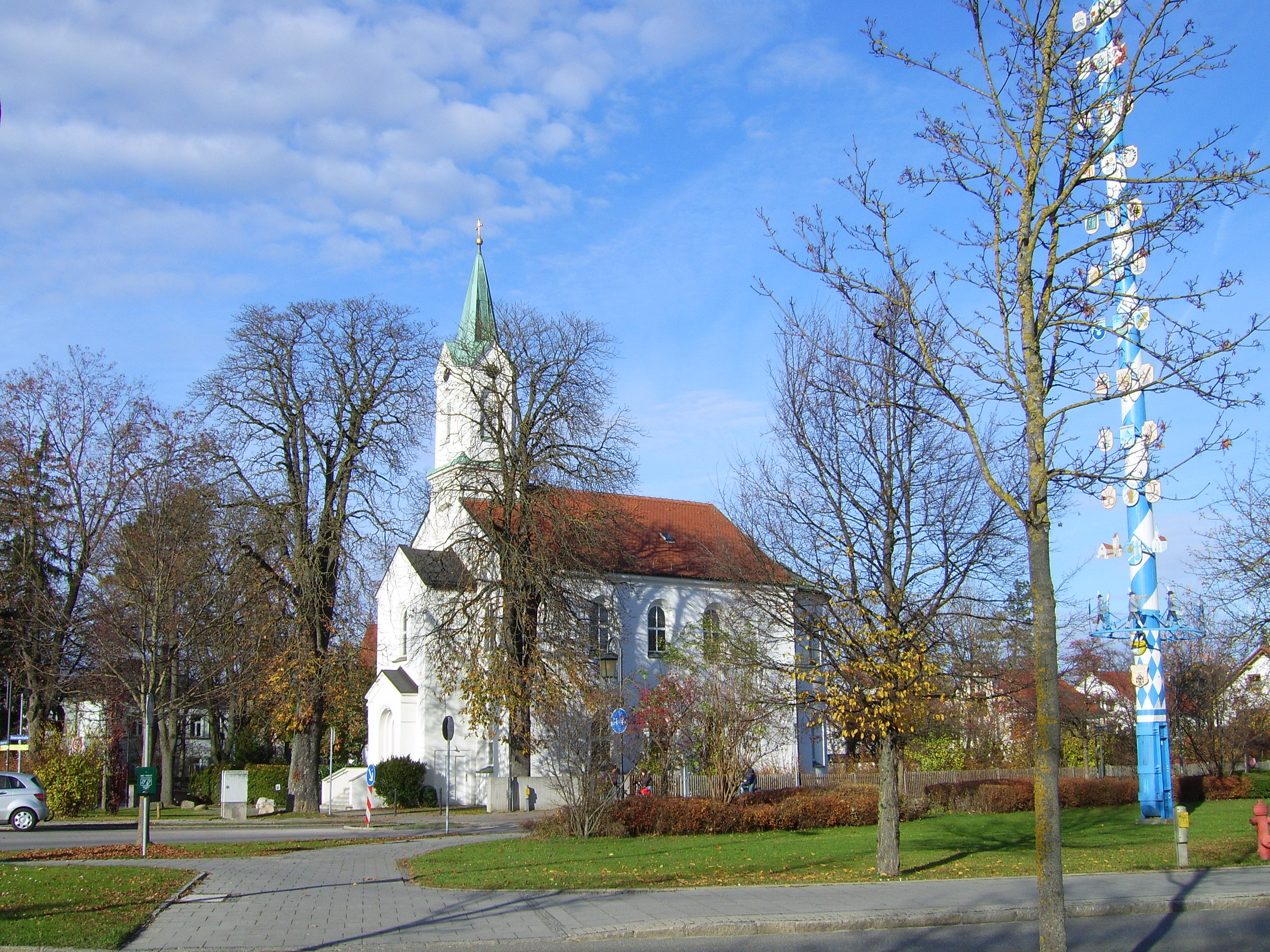 Protestant Church in Feldkirchen (view from south).